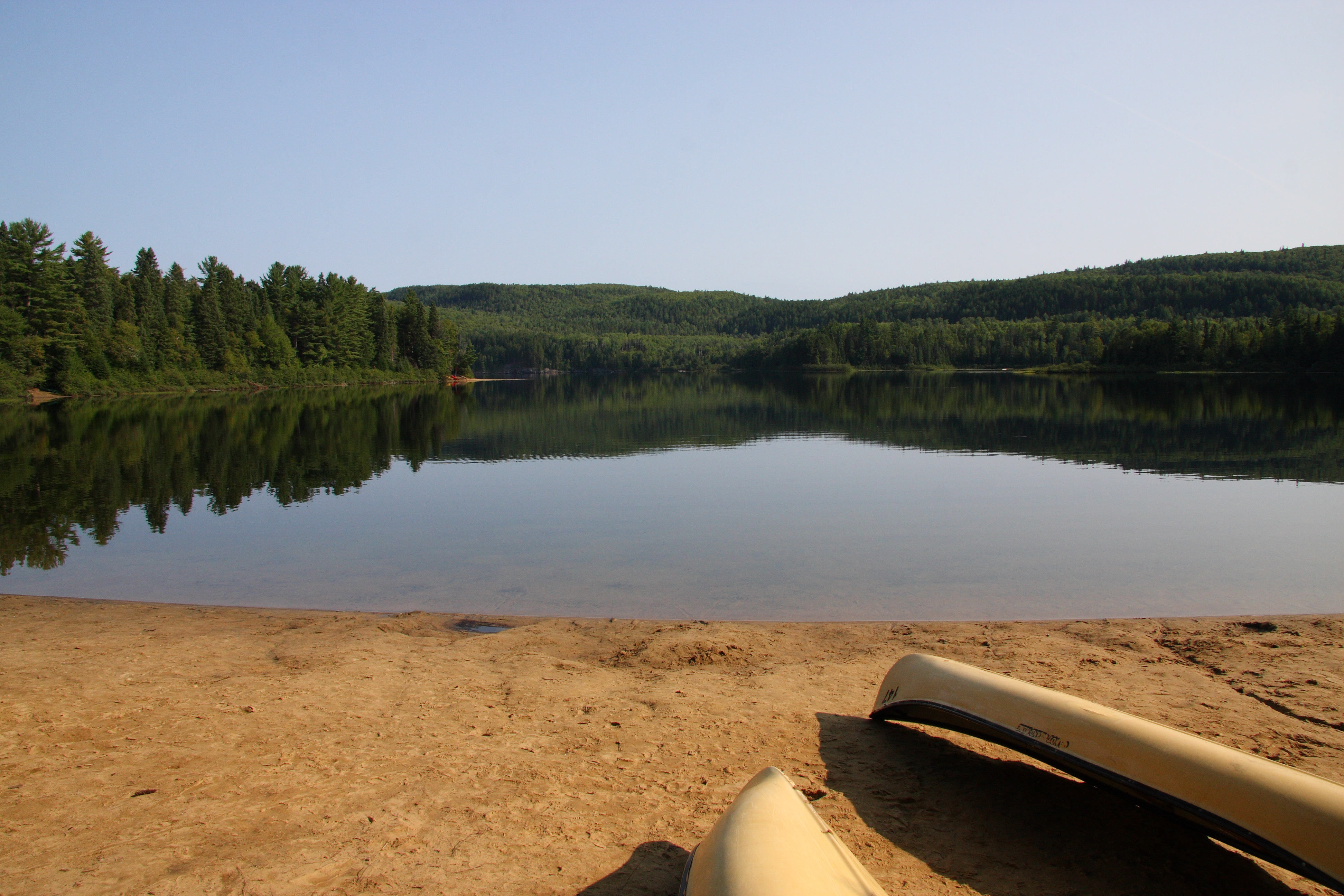 Wapizagonke lake seen from camping E beach, La Mauricie National Park, Quebec, Canada.